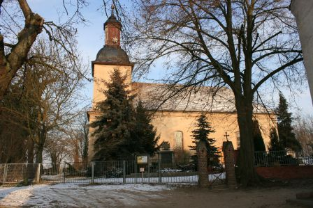 Church in Berge in Brandenburg, Germany